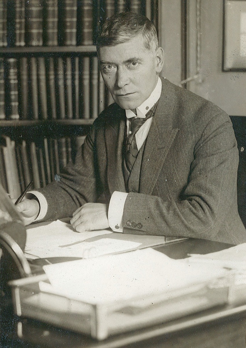 Norwegian rower, playwright, jurist and sports official Leif Sundt Rode (1885–1967). Photo from the 1930s.